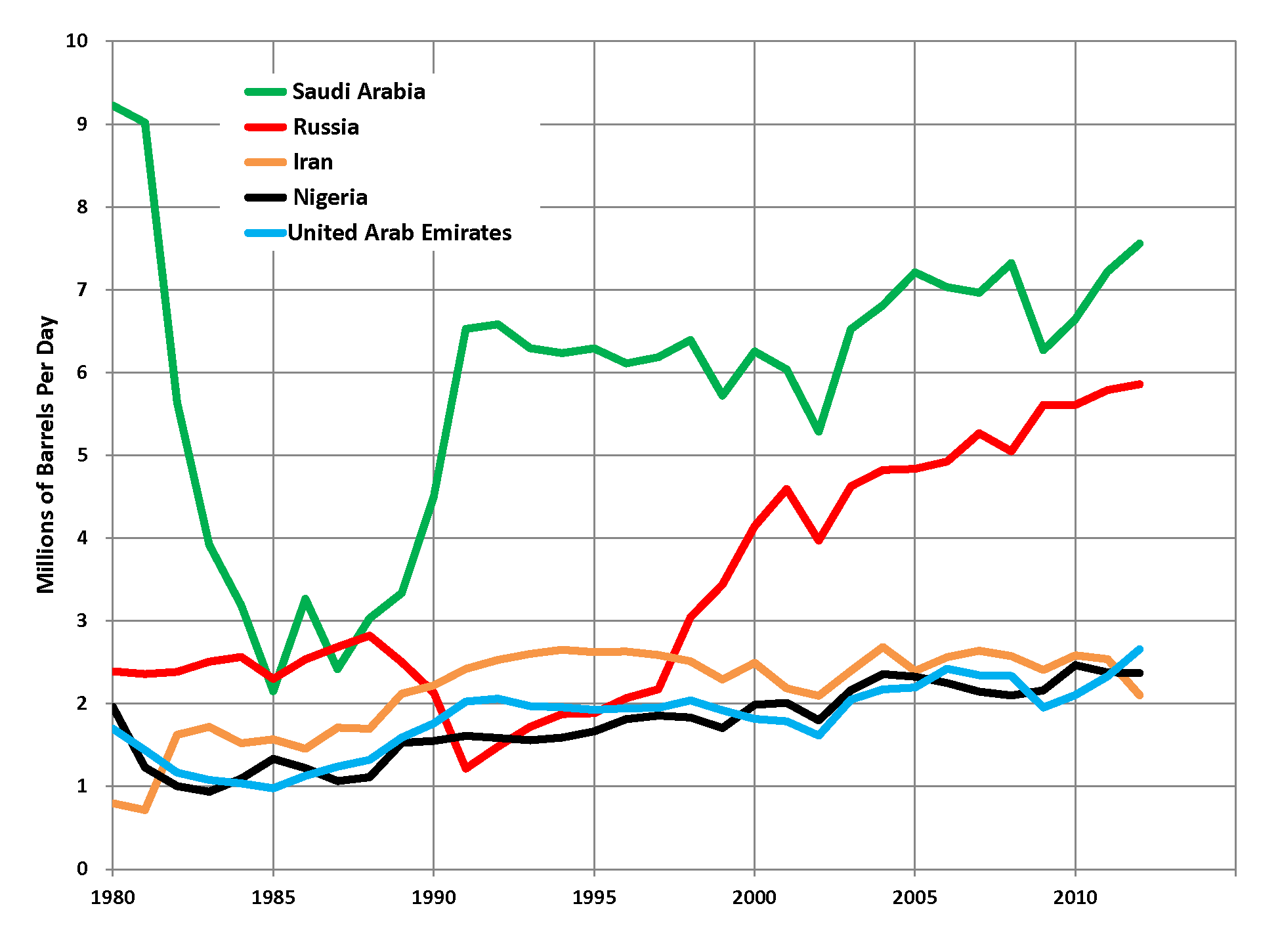 Trends in the top five crude oil-exporting countries, 1980-2012